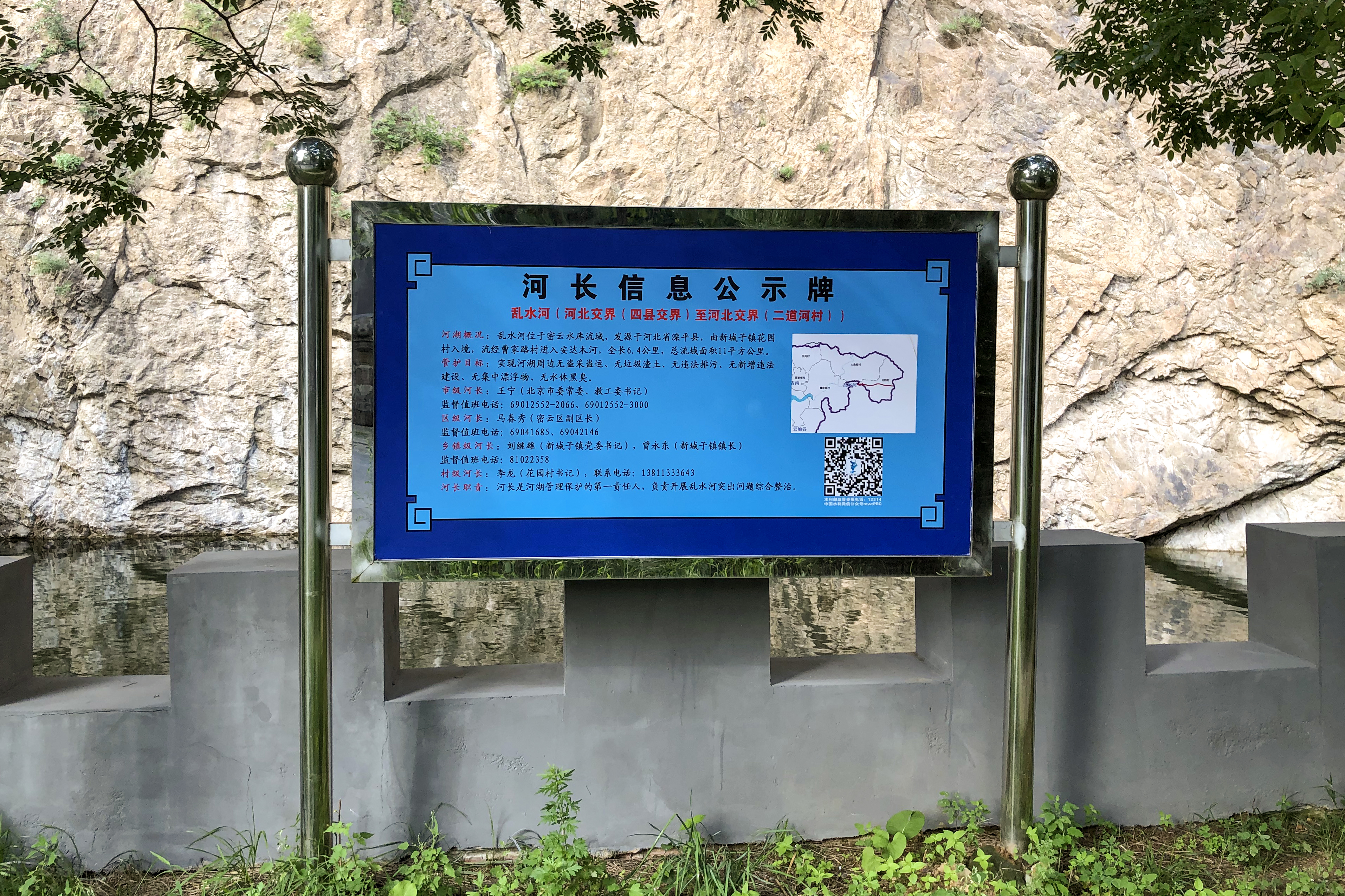 The river chief system started in 2016.